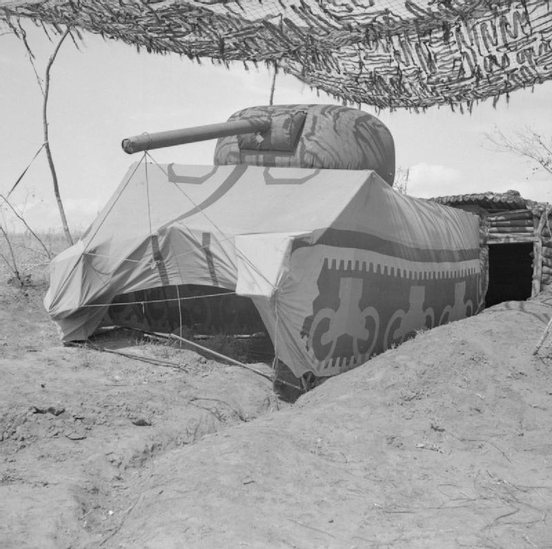 The British Army in Italy 1944 Dummy Sherman tank in the Anzio bridgehead, 21 May 1944.